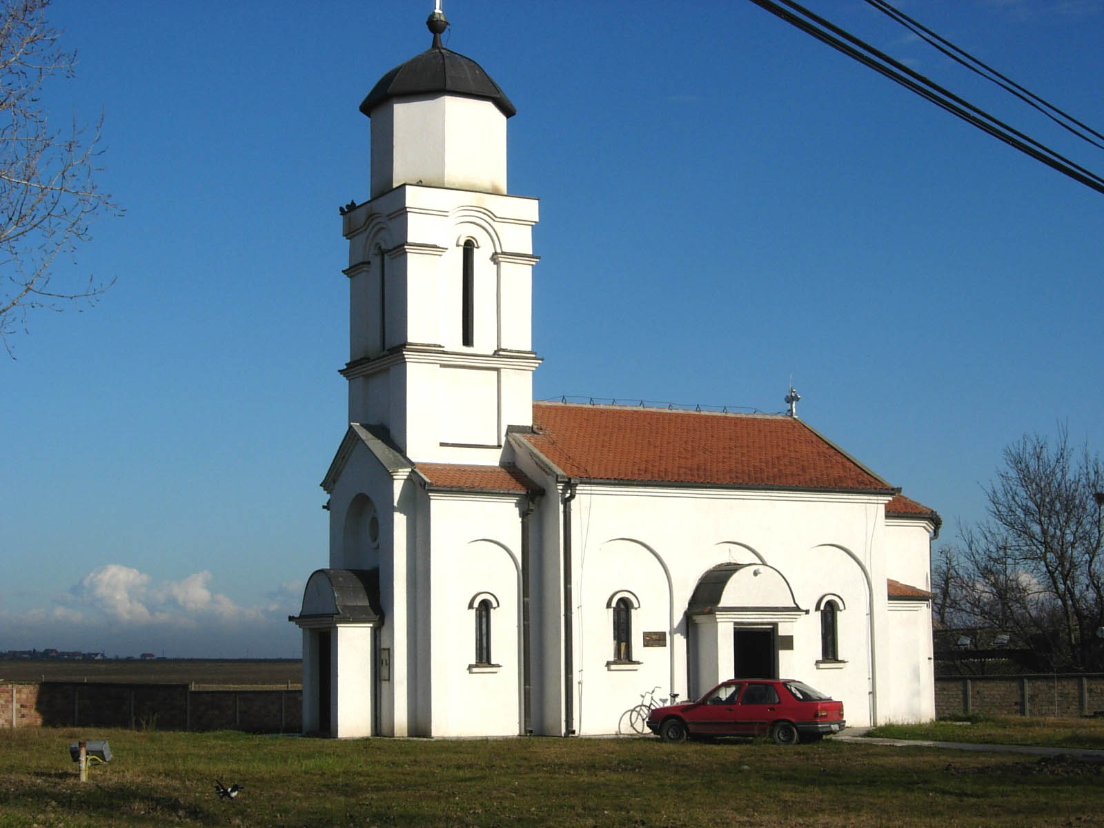 The new Orthodox church in Ljukovo, Serbia.